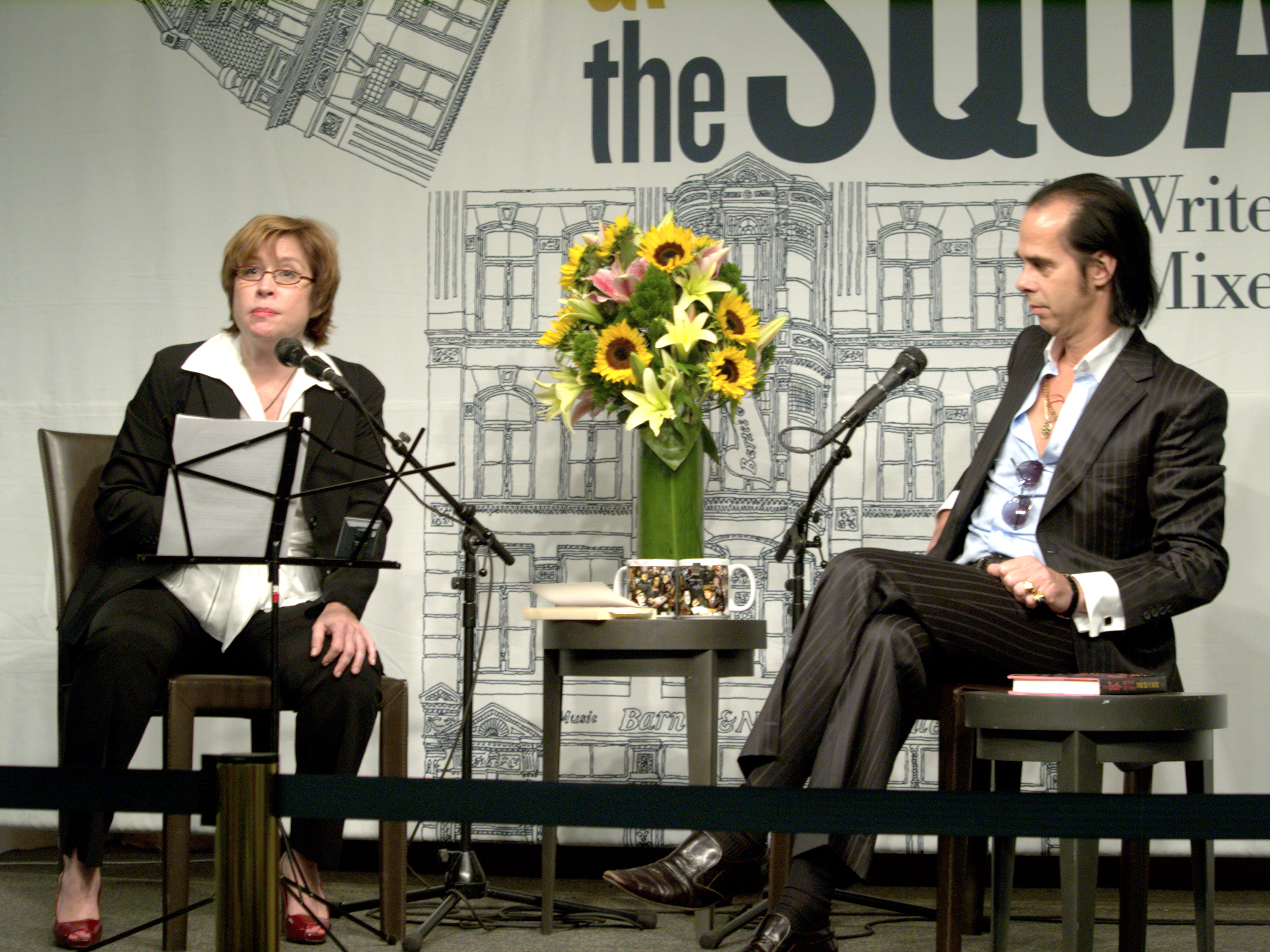 Katherine Lanpher interviews Nick Cave at the Union Square Barnes & Noble about his new book, The Death of Bunny Munro. Photographers blog post about the photo and event.